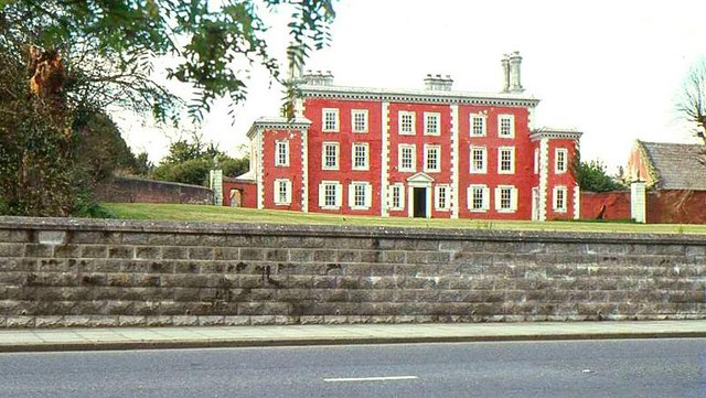 Waringstown House, Waringstown (2). See 1432551. The house before restoration and before the growth of the trees had hidden it from public view.